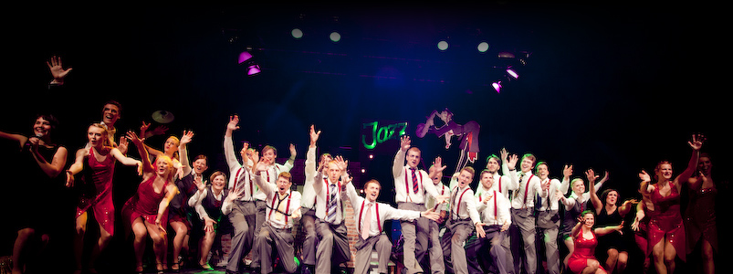 Grand Show 2011, Svenska Showorkestern Phontrattarne